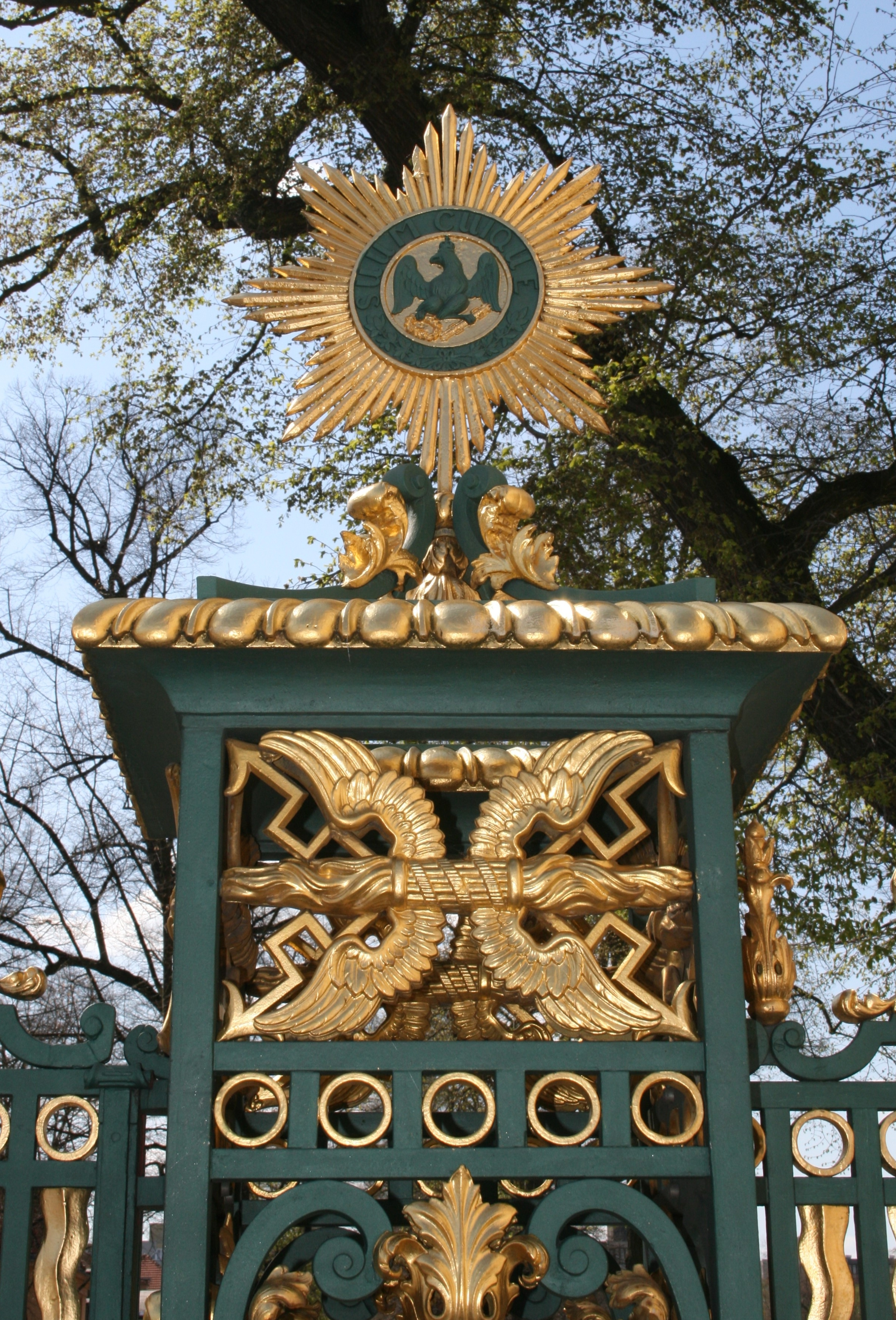 suum cuique, fence in front of Charlottenburg Plalace, Berlin, Germany